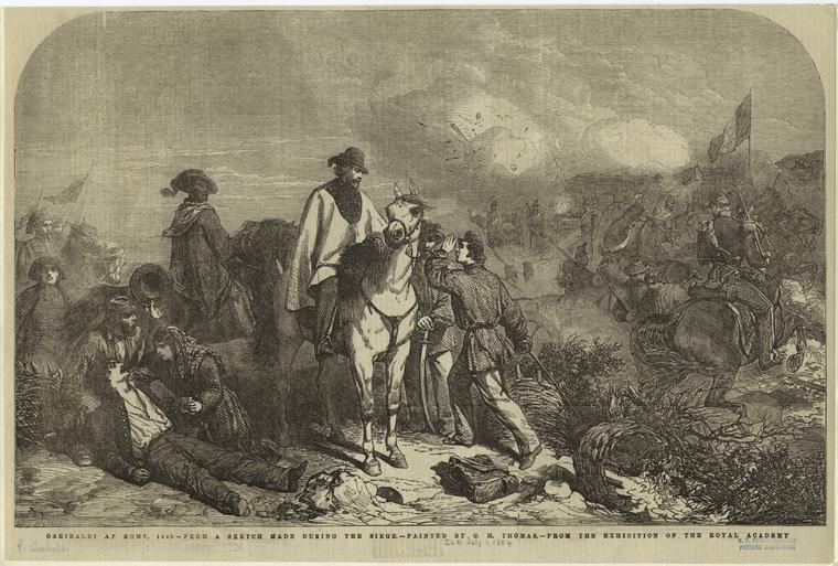 Garibaldi at Rome, 1849, from a sketch made during the siege.